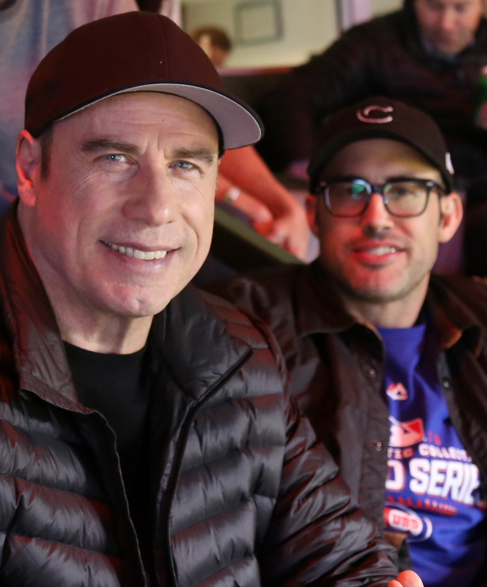 Actors Michael Pena and John Travolta enjoys Game 5 of the 2016 World Series.